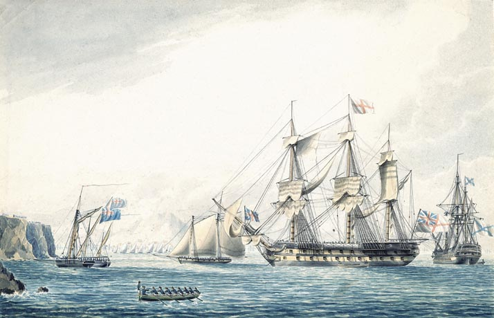 The 44-gun ship Argo with russian ship 1799 at Gribraltar